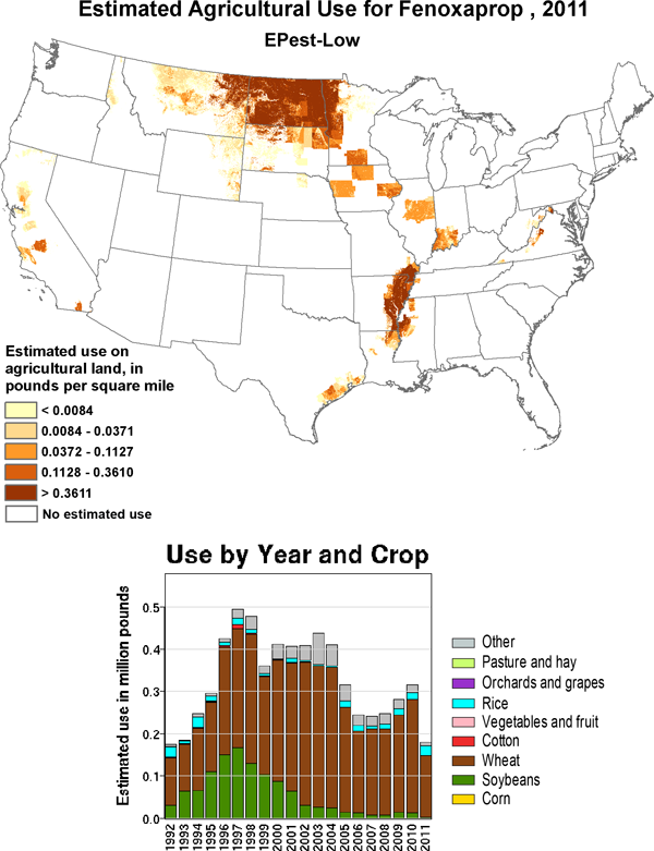 Fenoxaprop map of use, USA, 2011 (estimated)